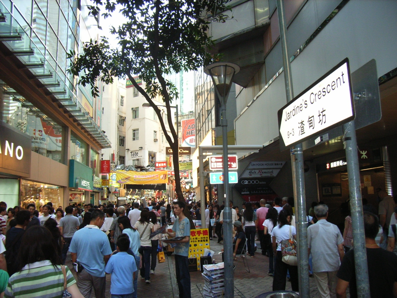 Jardine's Cresent (渣甸坊) is a street near Jardine's Bazaar (渣甸街) in Causeway Bay, Hong Kong. It is one of the most busy commercial streets in HK. Photographer: MSUCWB